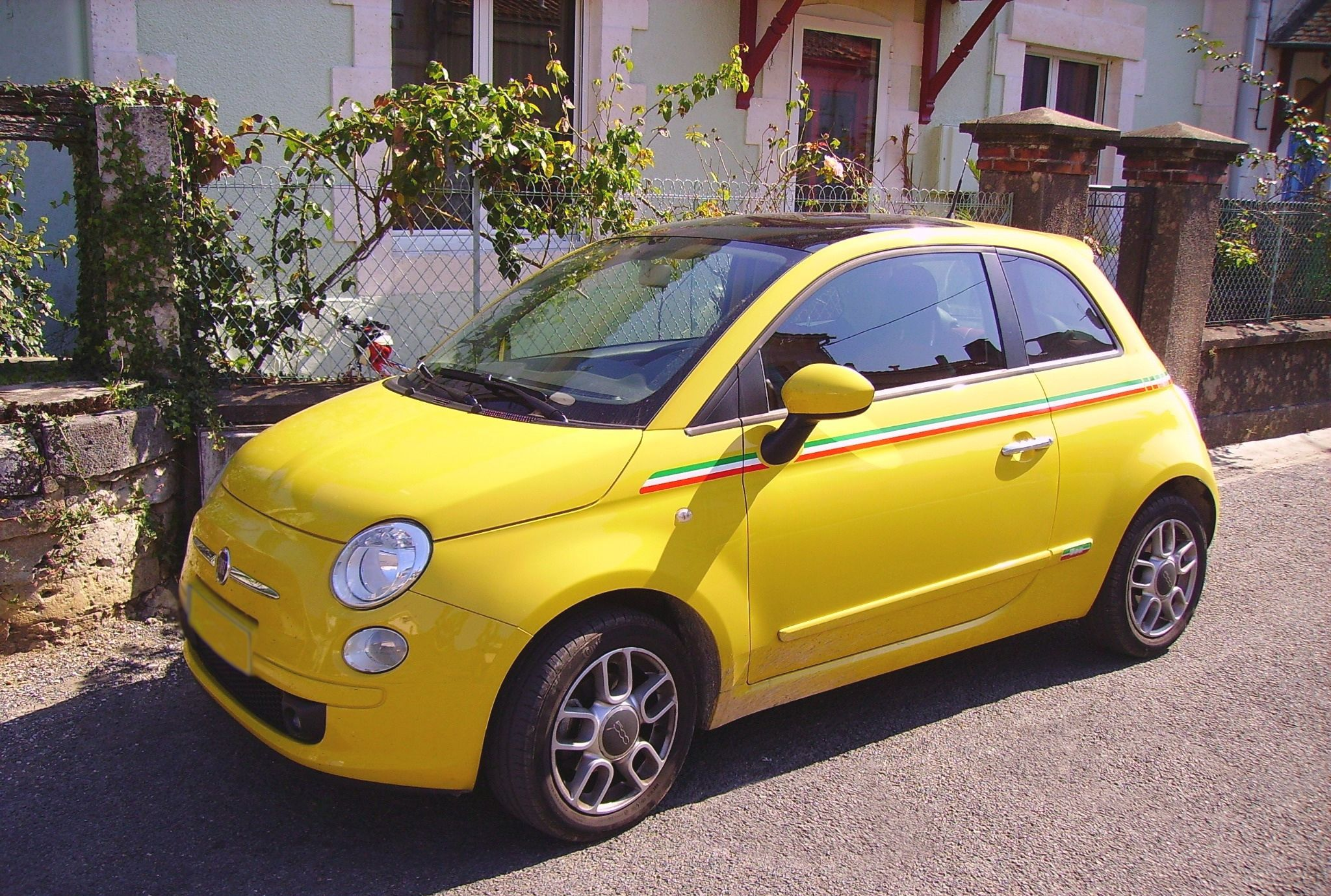 Fiat 500 (2007) yellow.